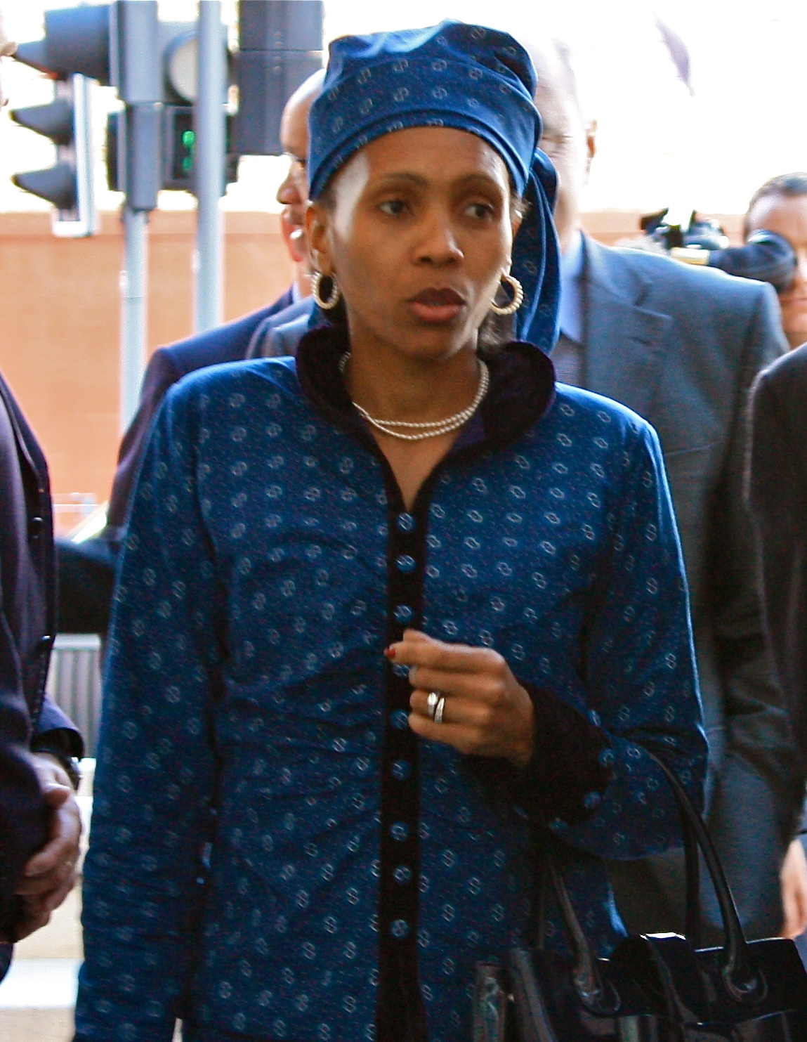 Cropped image of Queen 'Masenate Mohato Seeiso of Lesotho visiting the National Assembly for Wales (Senedd), Cardiff, Wales